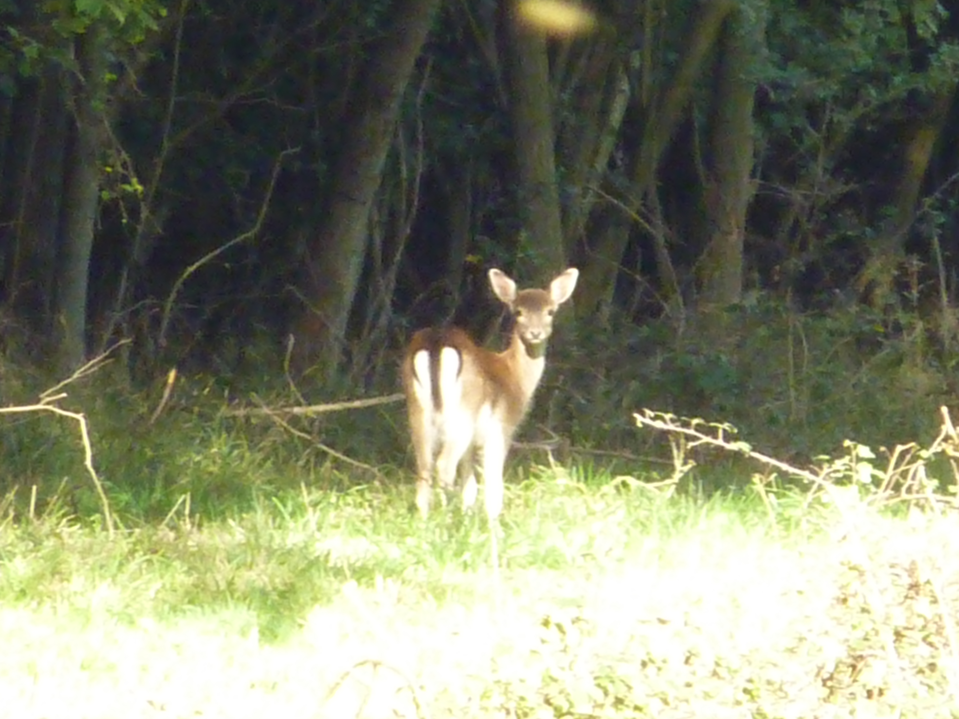 Fallow deer (Cervus dama) at Hatfield Forest